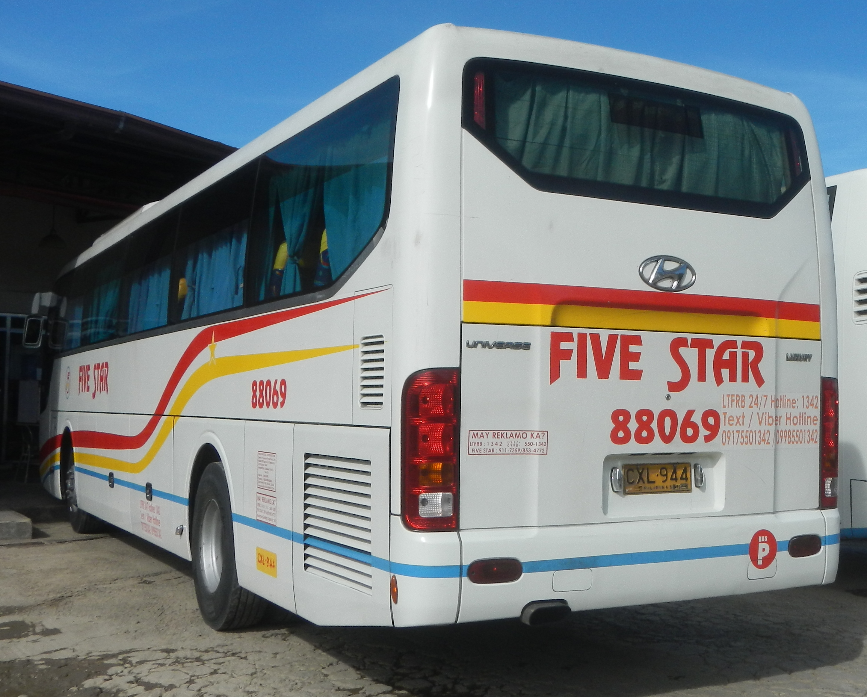 Five Star and Cisco buses in bus stop in Barangays Balite, Camias 15°9'53"N 120°58'26"E San Miguel, Bulacan beside the Five Star bus stop, along the Pan-Philippine Highway, also known as the Maharlika "Nobility/freeman" Highway in Cagayan Valley Road (Note: Judge Florentino Floro, the owner, to repeat, Donor Florentino Floro of all these photos hereby donate gratuitously, freely and unconditionally all these photos to and for Wikimedia Commons, exclusively, for public use of the public domain, and again without any condition whatsoever).